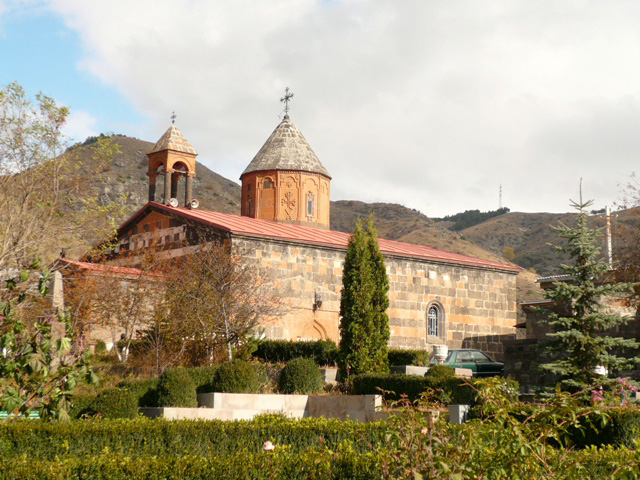 The Black Church in Vanadzor city.